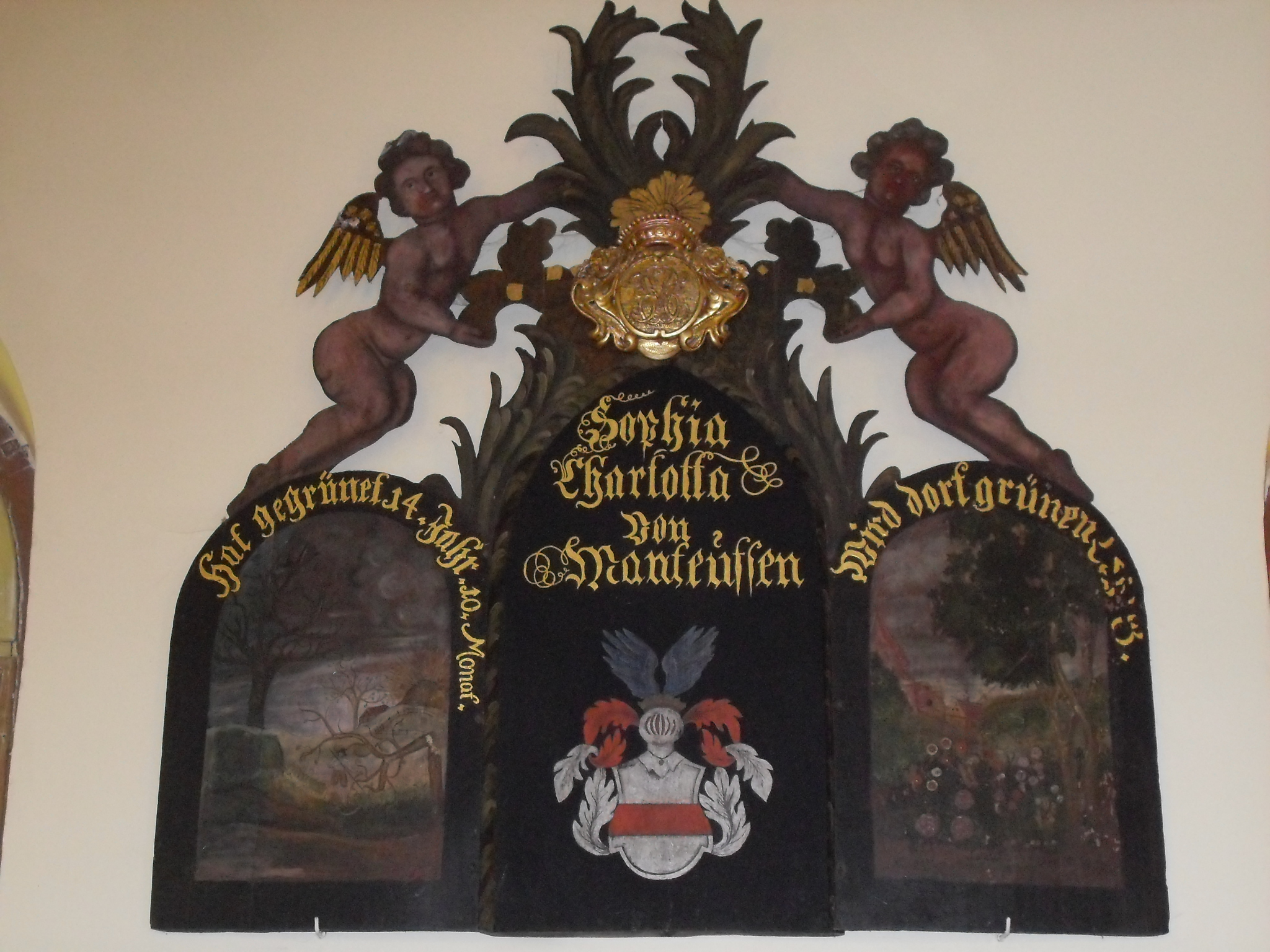 Our Lady of Częstochowa church in Karścino, Poland